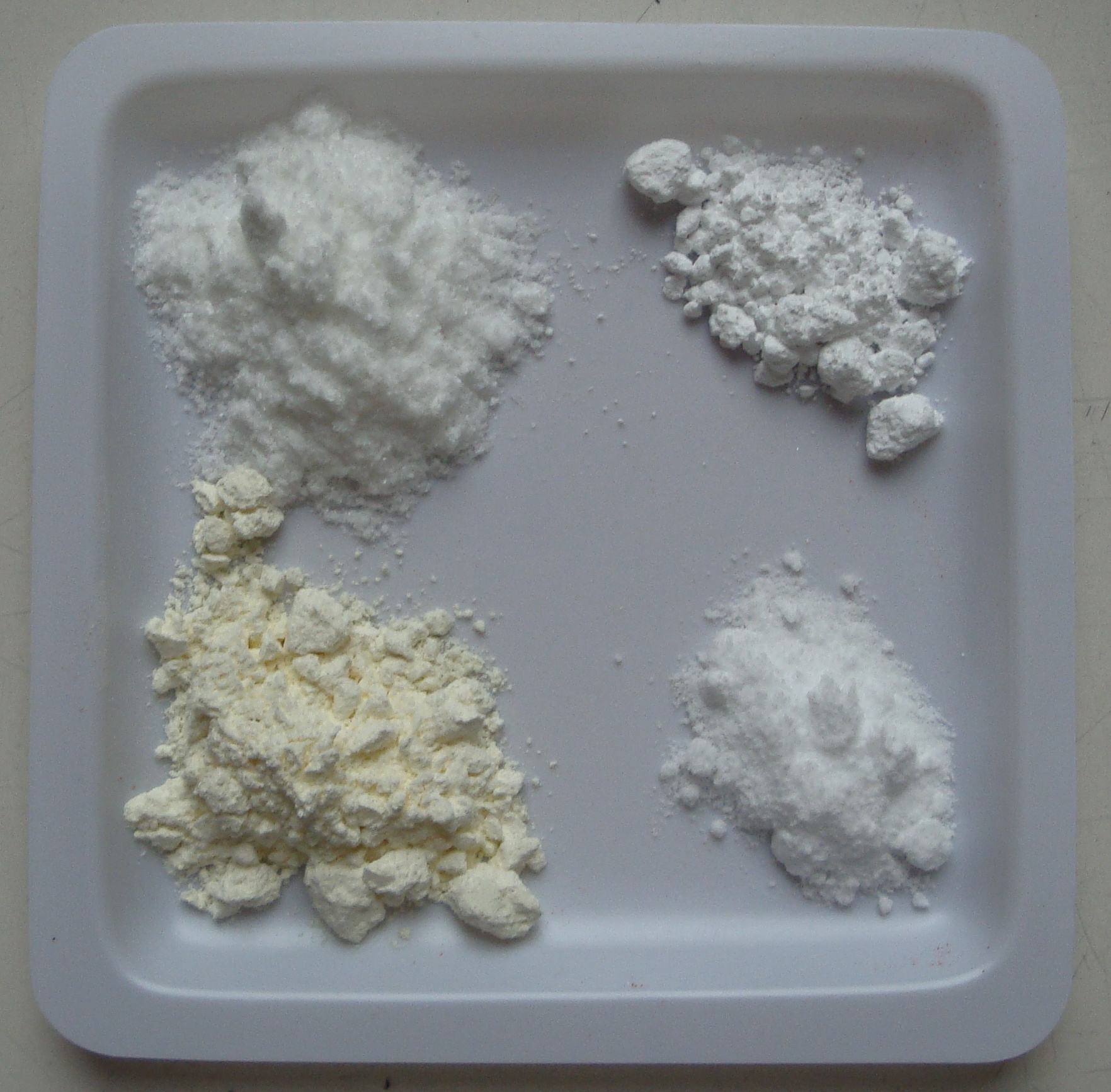 Typical additives for powder coatings